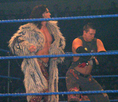 John Morrison & The Miz @ Adelaide, South Australia 'Smackdown/ECW' house show on the 14th of June '08